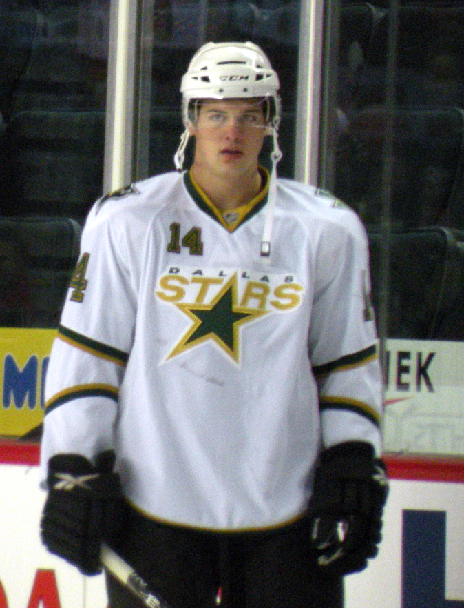 Dallas Stars forward Jamie Benn prior to a National Hockey League game against the Calgary Flames, in Calgary.